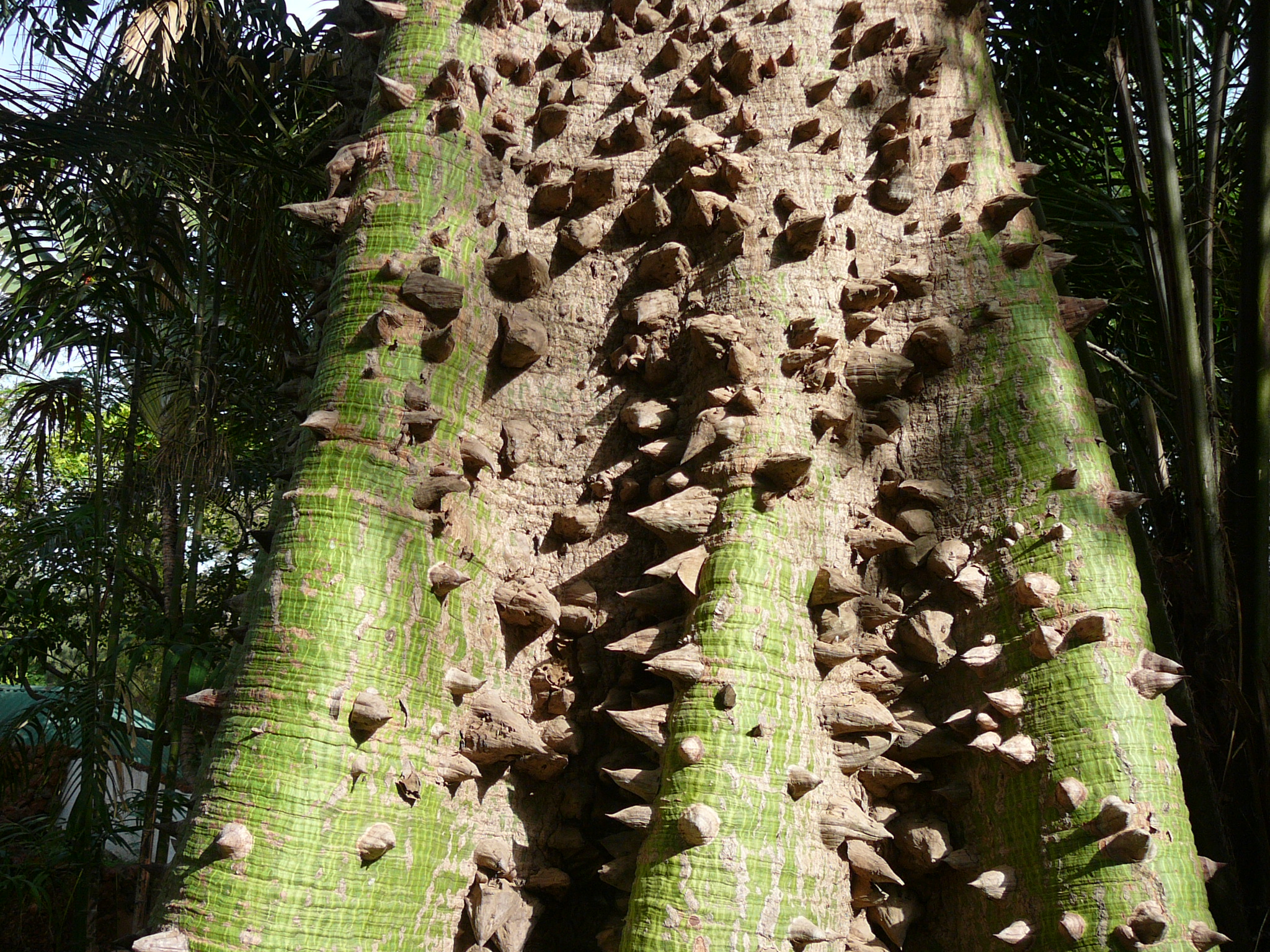 White-flowered silk cotton tree